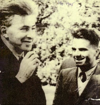 Aleks Caci and Ilya Erenburg